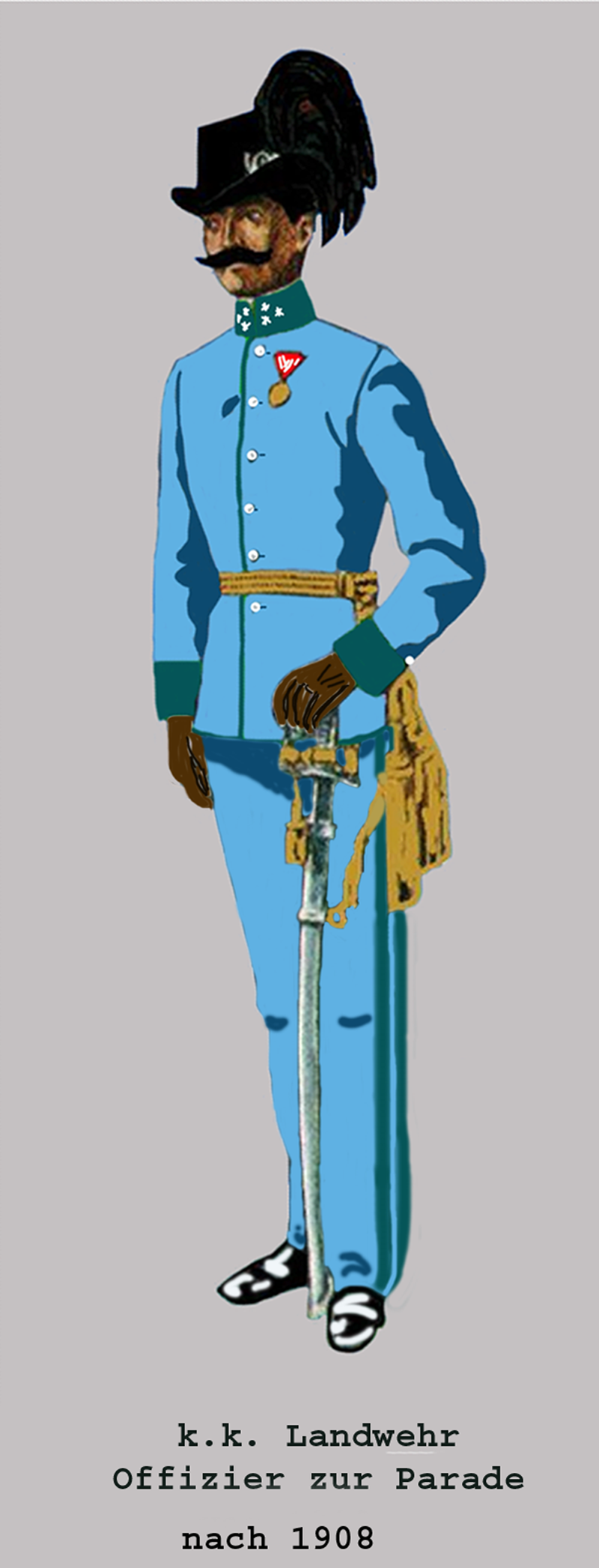 Captain of the k.k. Landwehr of Austria-Hungary in Paradedress